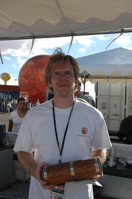 John Carmack during the X-Prize Cup 2005 in Las Cruces and Alamogordo, New Mexico.